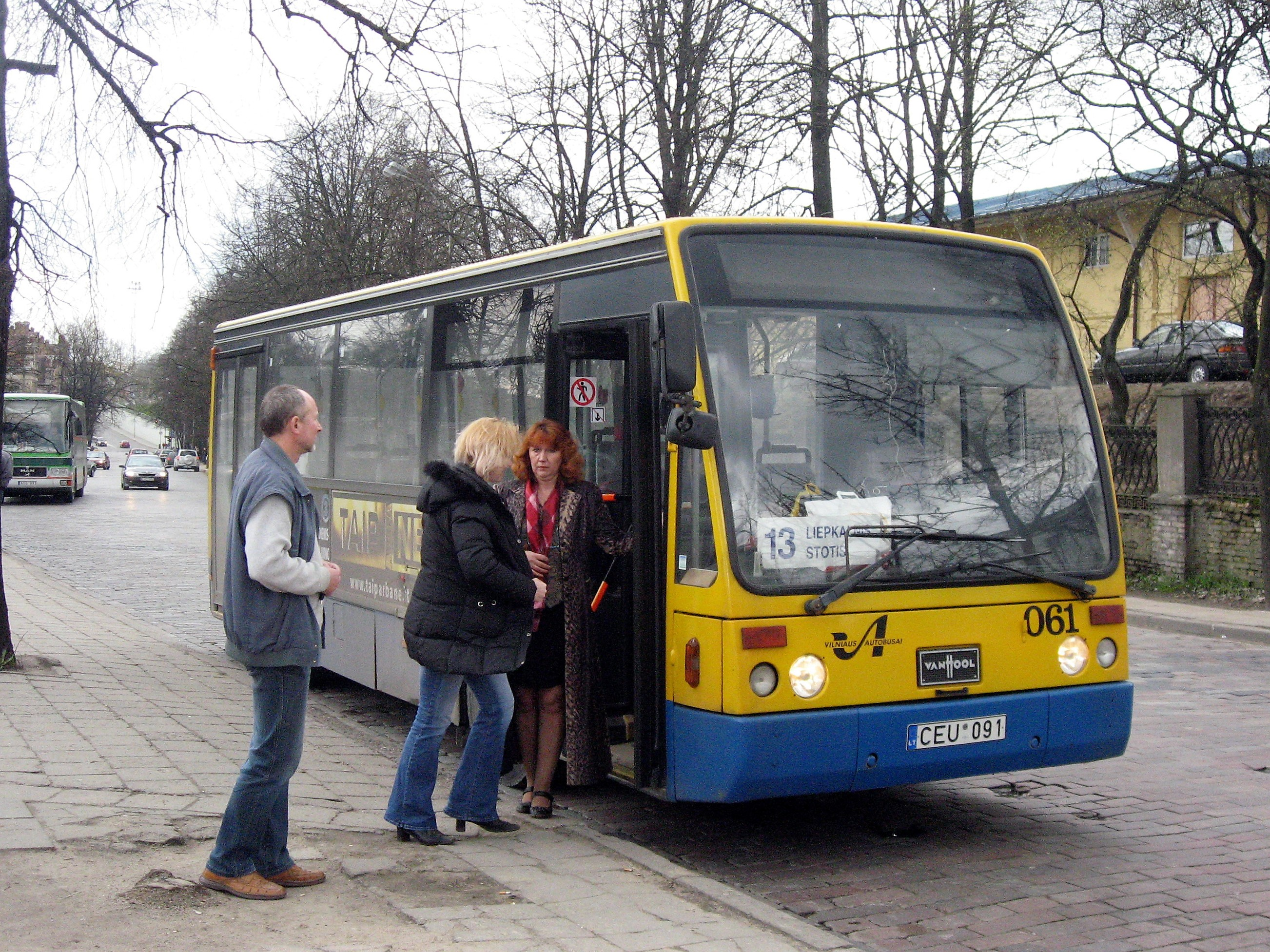 Van Hool A508 bus in Vilnius.